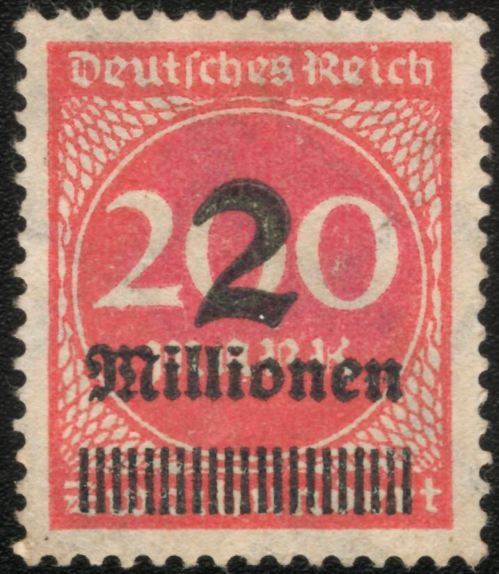 An overprinted German stamp of october 1923[1], hyperinflation surcharge of 1923: 2 Million on 200 Marks.